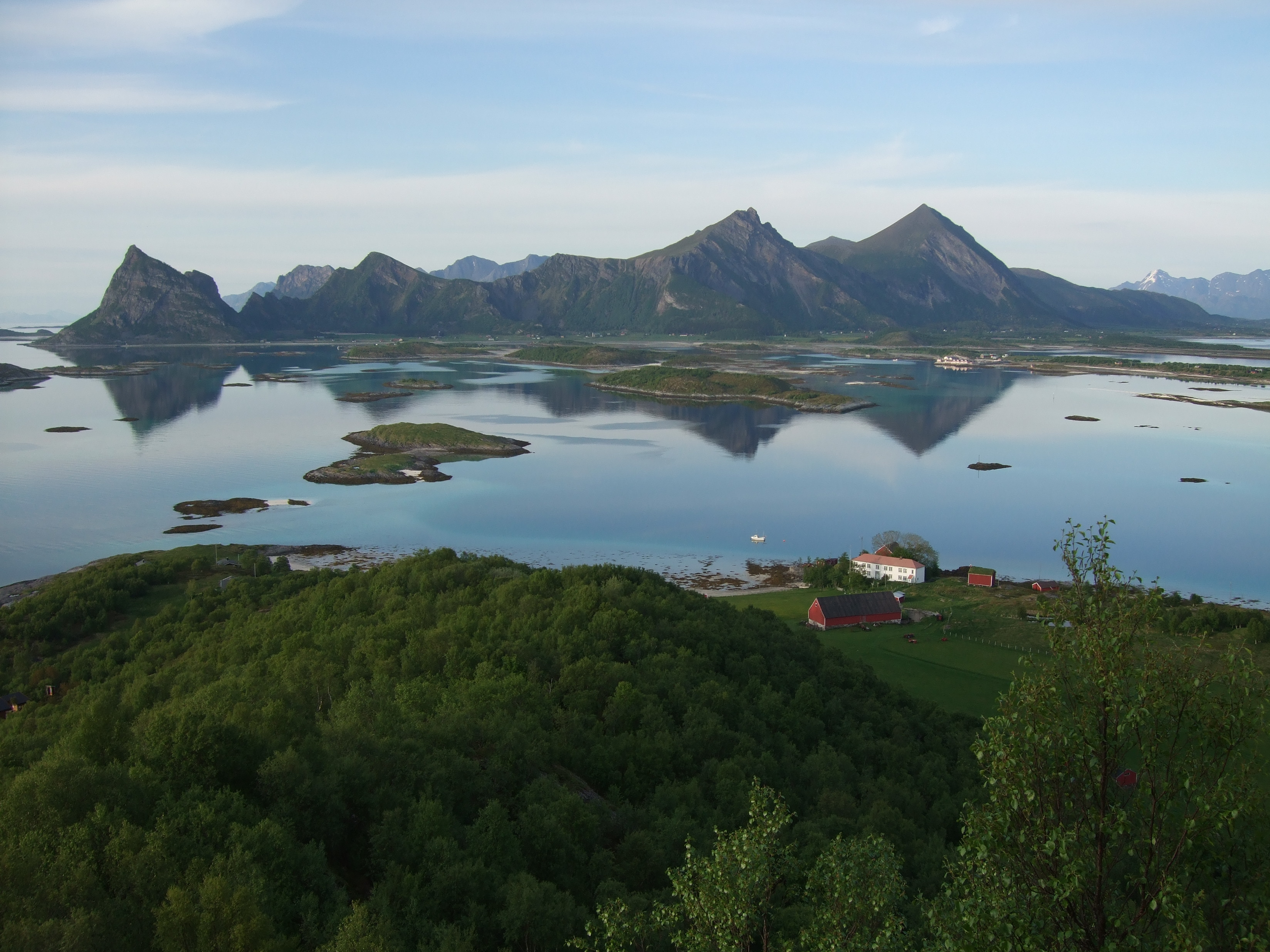 "Løvøy old trading center" with Engeløya in the background, Norway.